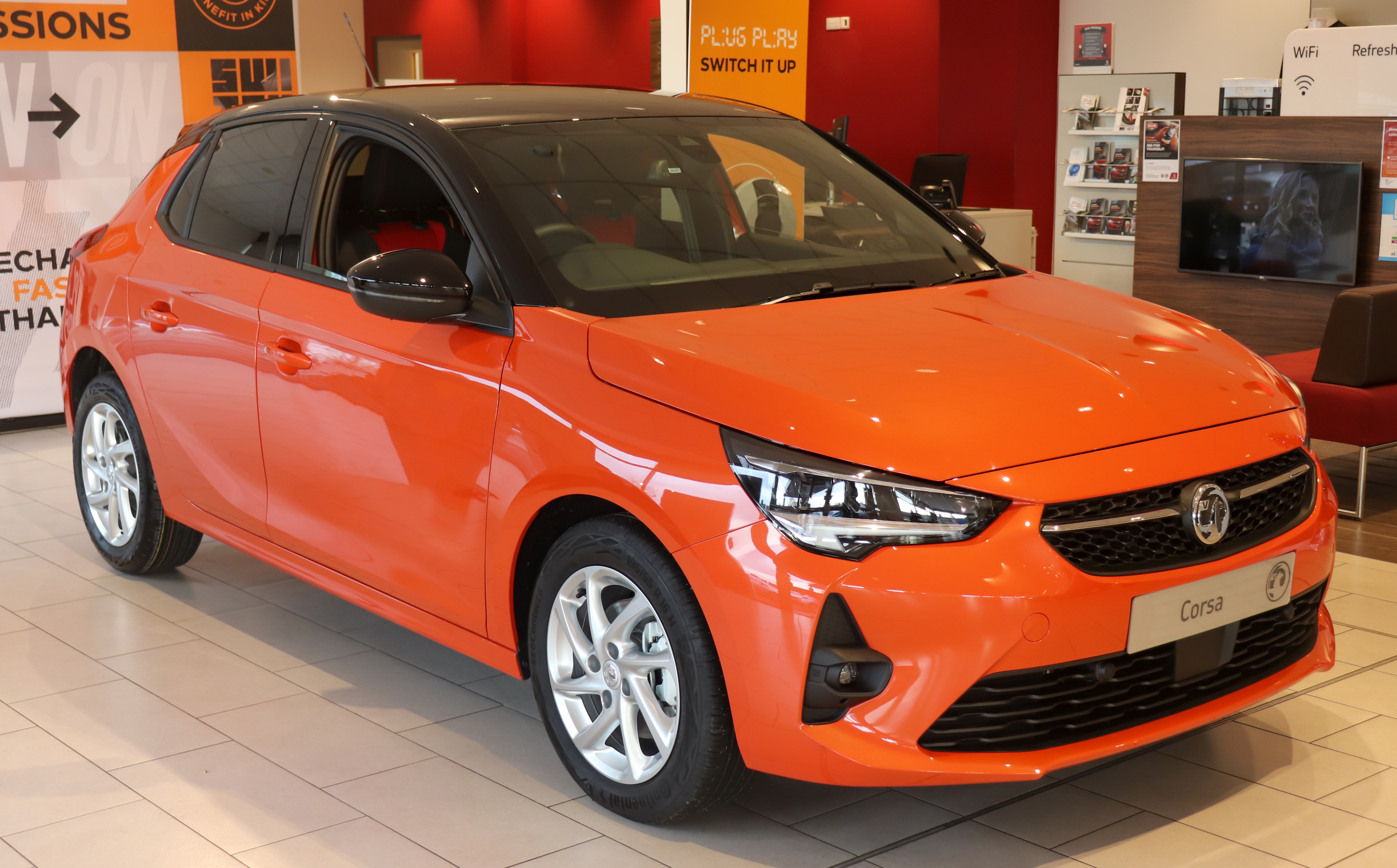 2019 Vauxhall Corsa SRi 1.2 Front Taken in Warwick